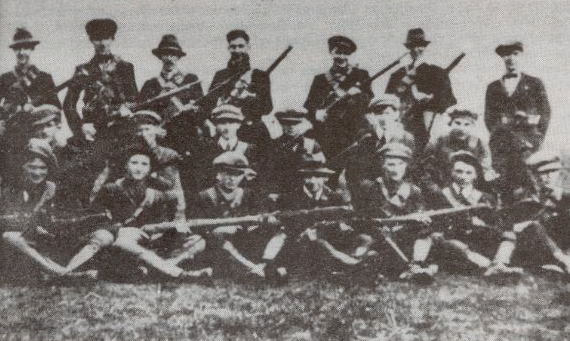 Seán Hogan's (NO.2 ) Flying Column, Third Tipperary Brigade IRA, during the War of Independence. Misidentified in original photo caption (here removed) as 'West Cork'.